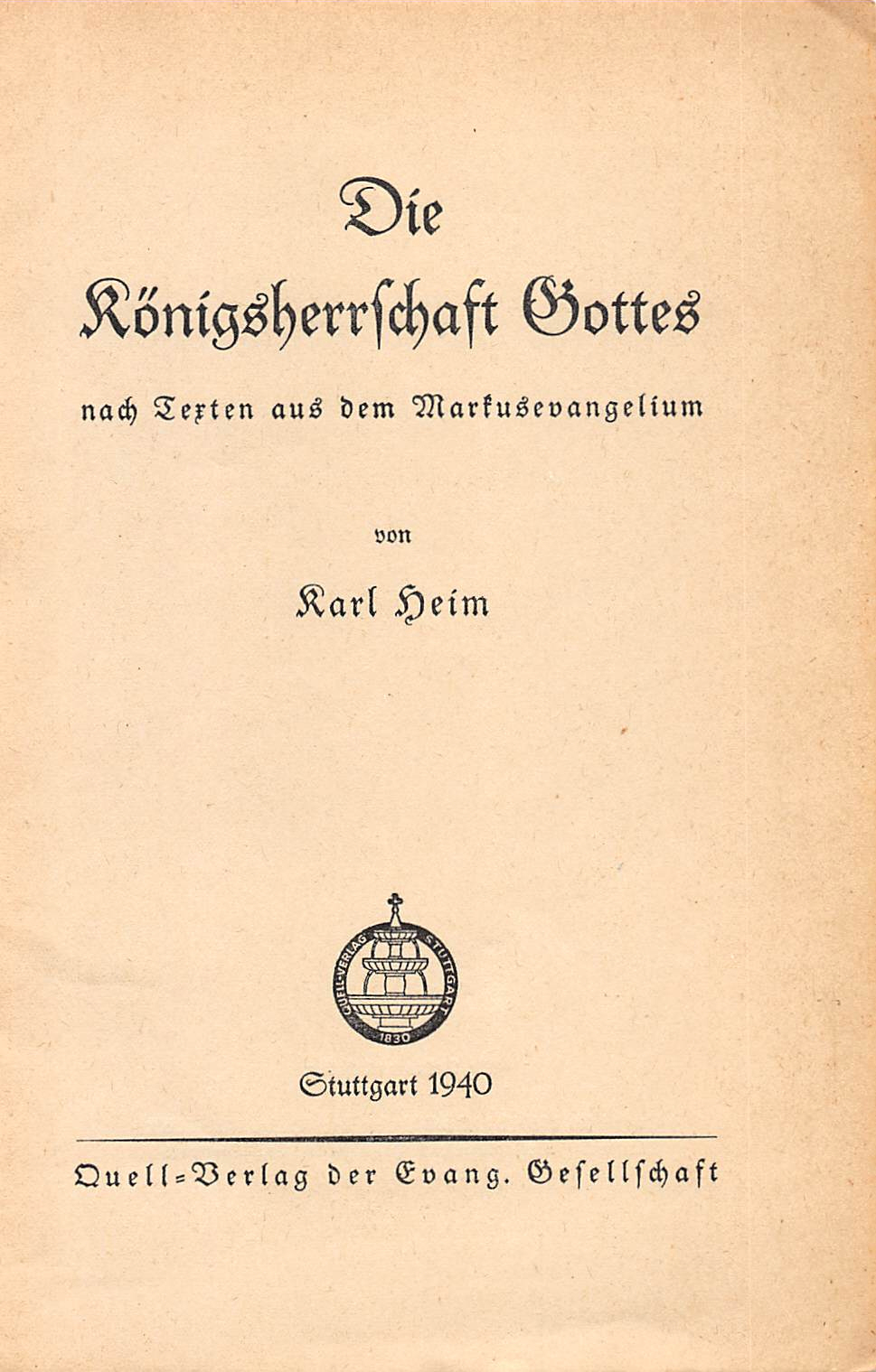 Cover page of a booklet by Karl Heim